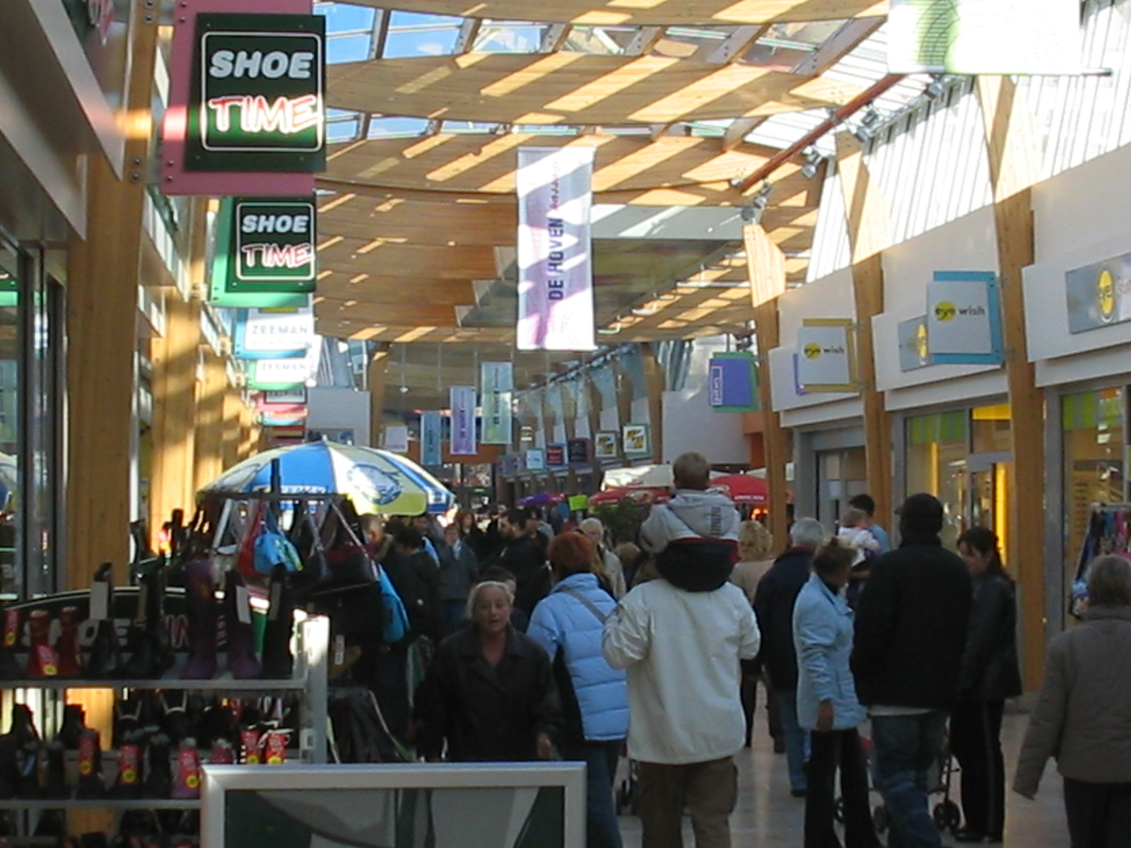 The inside view of a shopping mall in Delft, the Netherlands, called In De Hove